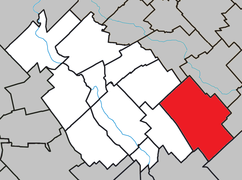 Location of Frampton, Quebec within La Nouvelle-Beauce Regional County Municipality.